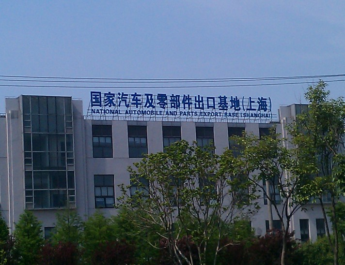 上海汽车城贸易基地之一